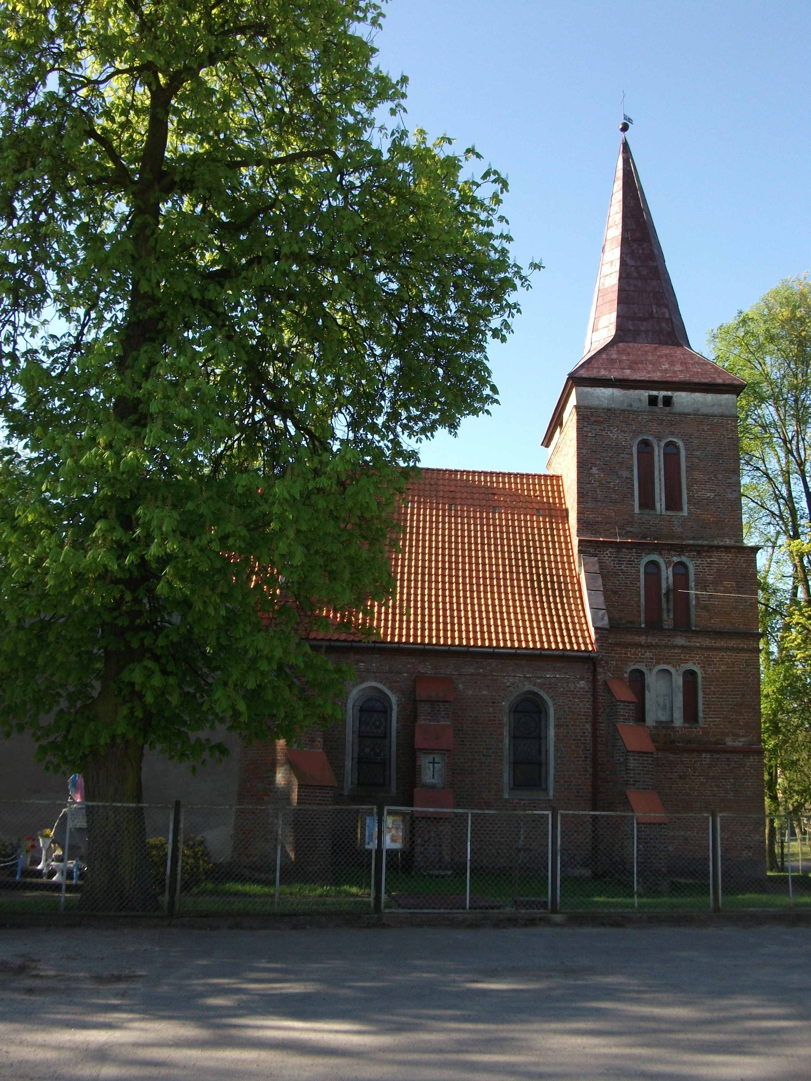 Church in Szynwałd village in Poland